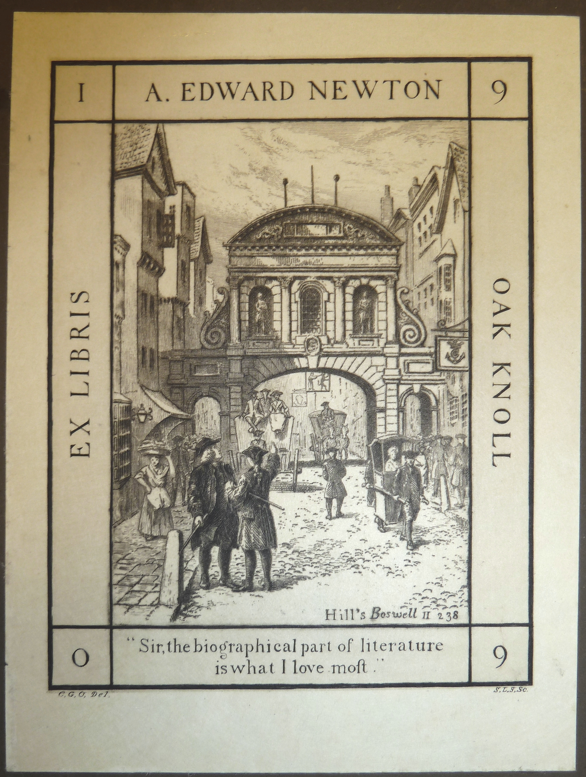 Bookplate, dated 1909, of A. Edward Newton, 1864-1940 Newton, A. Edward (Alfred Edward), 1864-1940 Penn Libraries call number: EC85 H2225 876h Flickr data on 2011-08-12: Camera: Panasonic DMC-ZS5 Tags: EC85 H2225 876h, English Culture Class Collection, Culture Class Collection, Penn Libraries, Bookplates, Provenance, Identified, Newton, A. Edward (Alfred Edward), 1864-1940 License: CC BY 2.0 User: kladcat